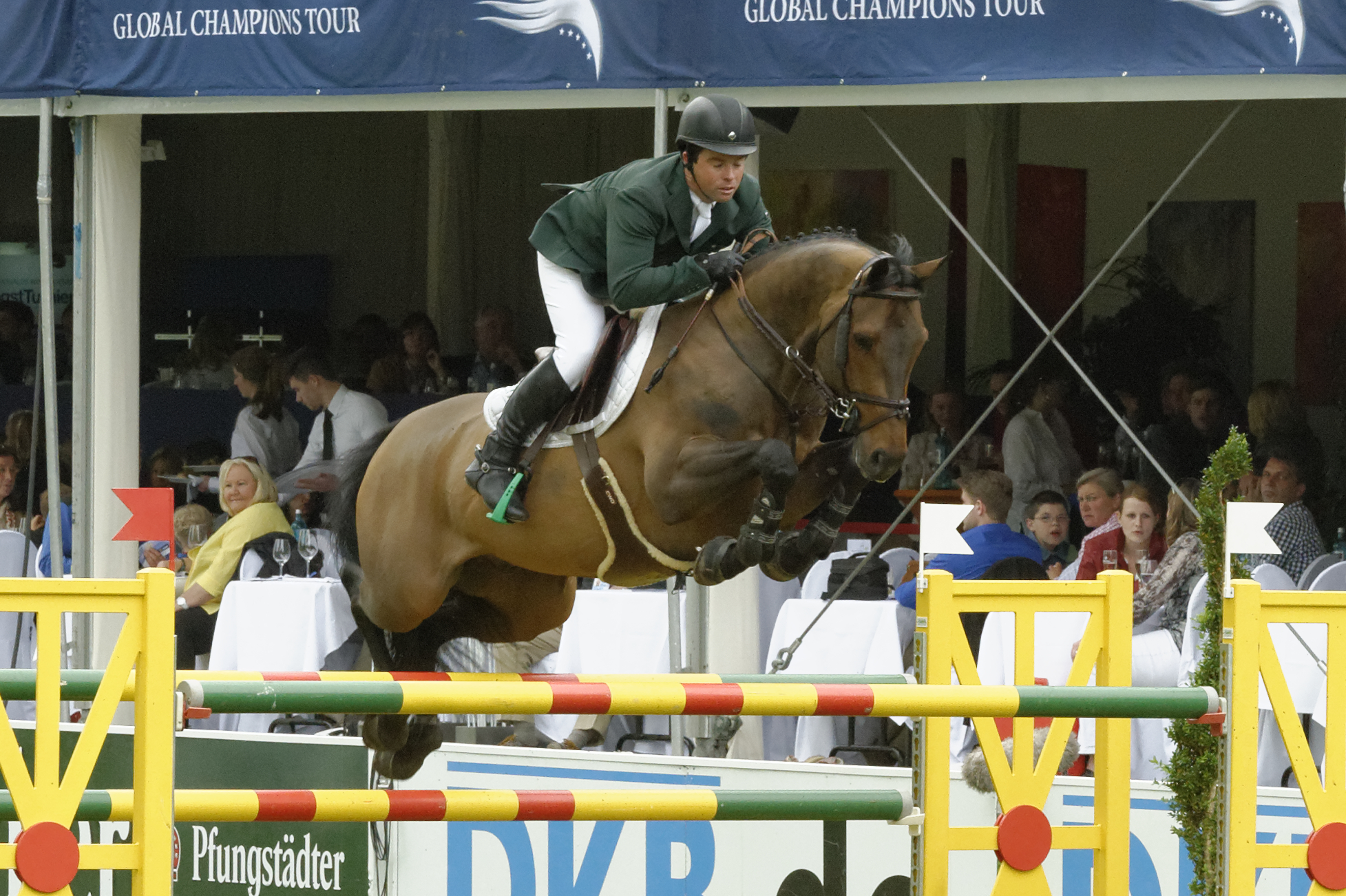 Internationales Pfingstturnier Wiesbaden 2013 The making of this document was supported by the Community-Budget of Wikimedia Germany.